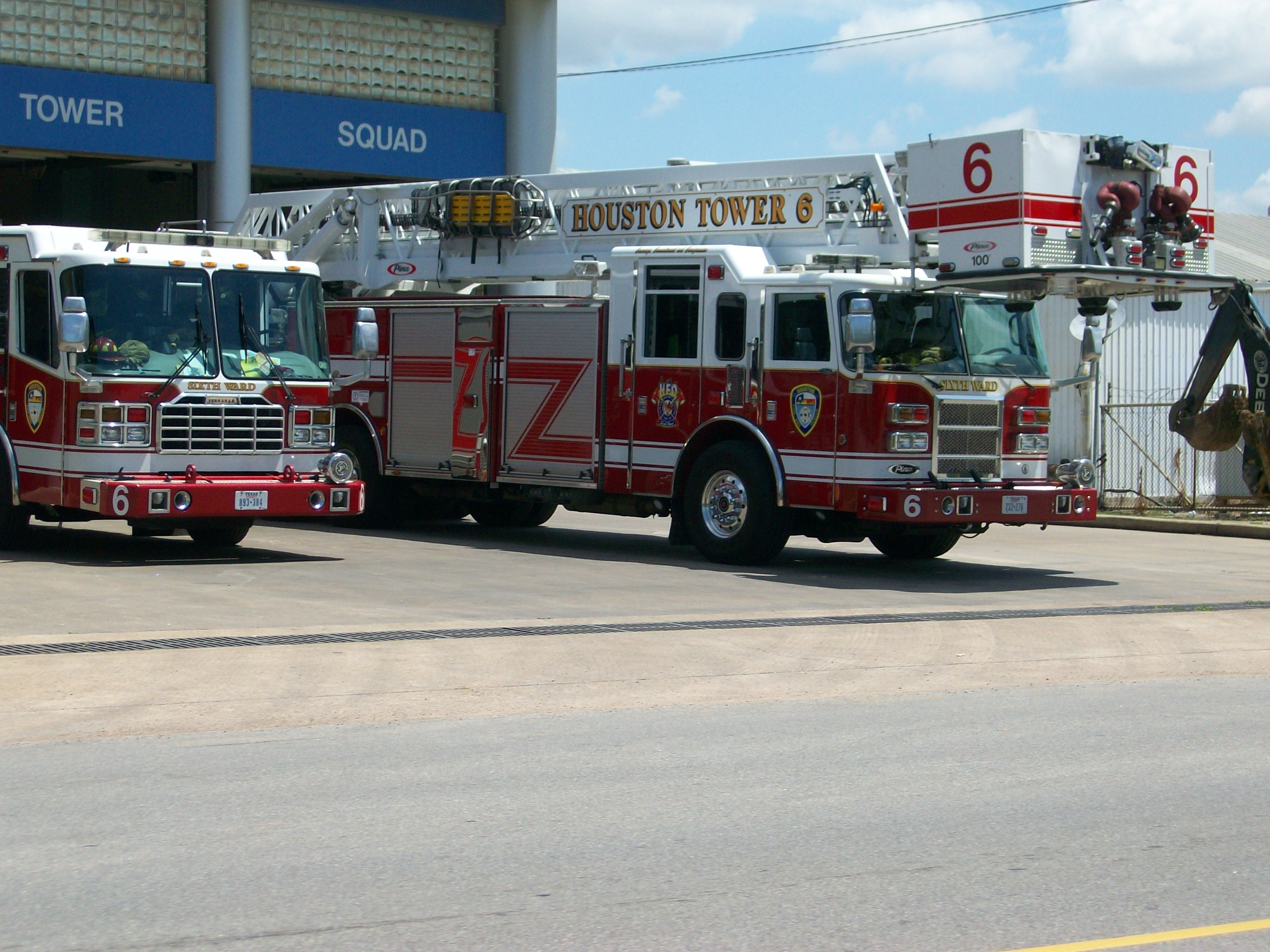 Fire Station No. 6 Sixth Ward